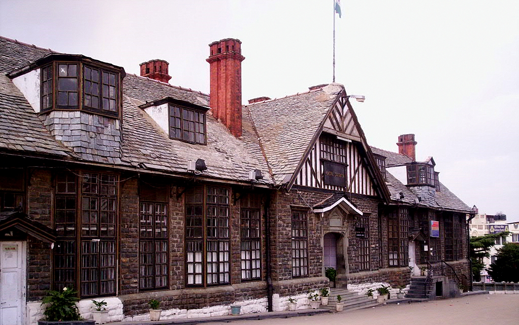 Muncipal corporation,the mall road Shimla